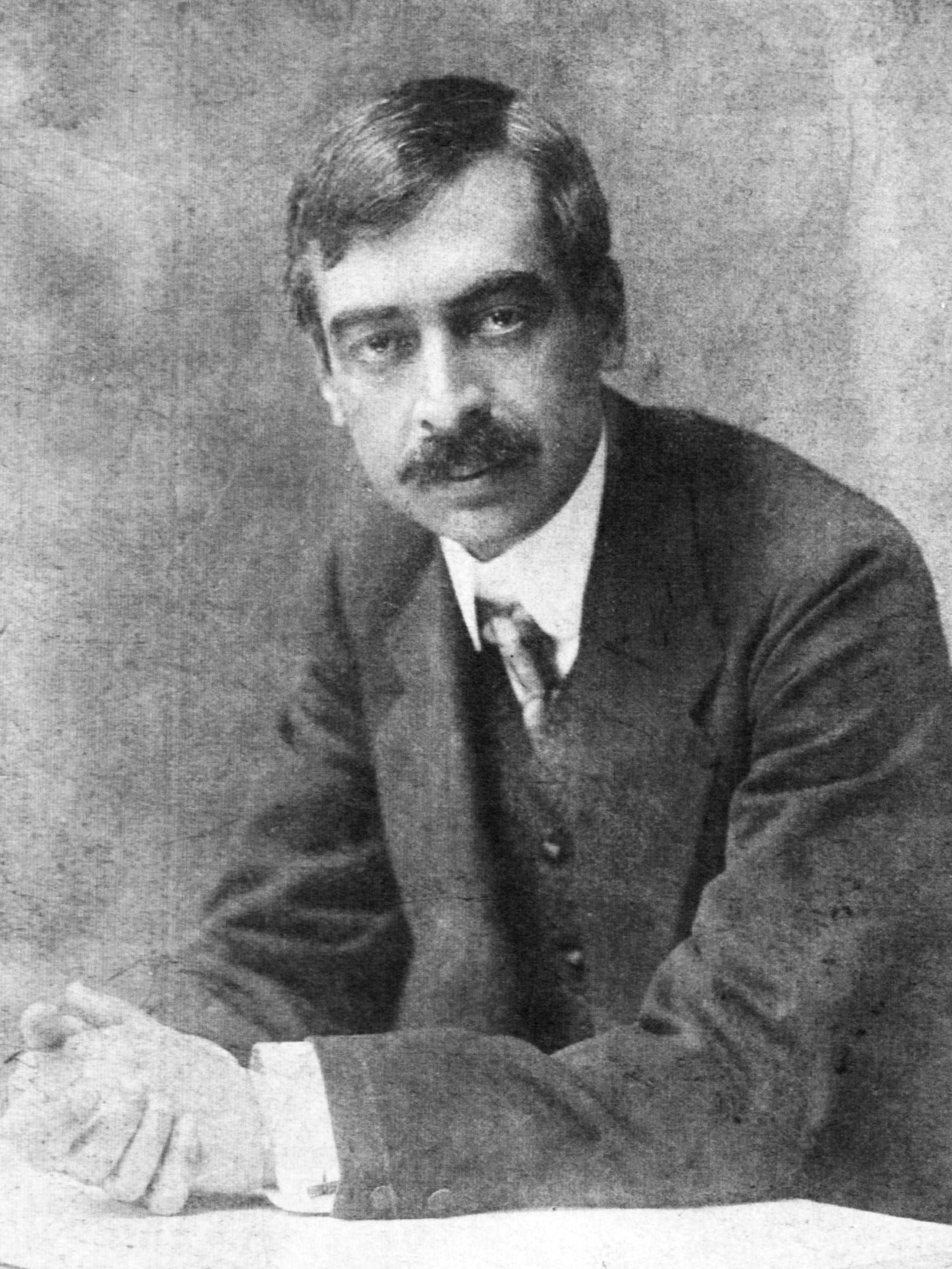 Bulgarian writer Yordan Stubel with dedication to Tsveta and Vladimir Vassilev. In the bottom right corner: "To Tsveta and Vlado."